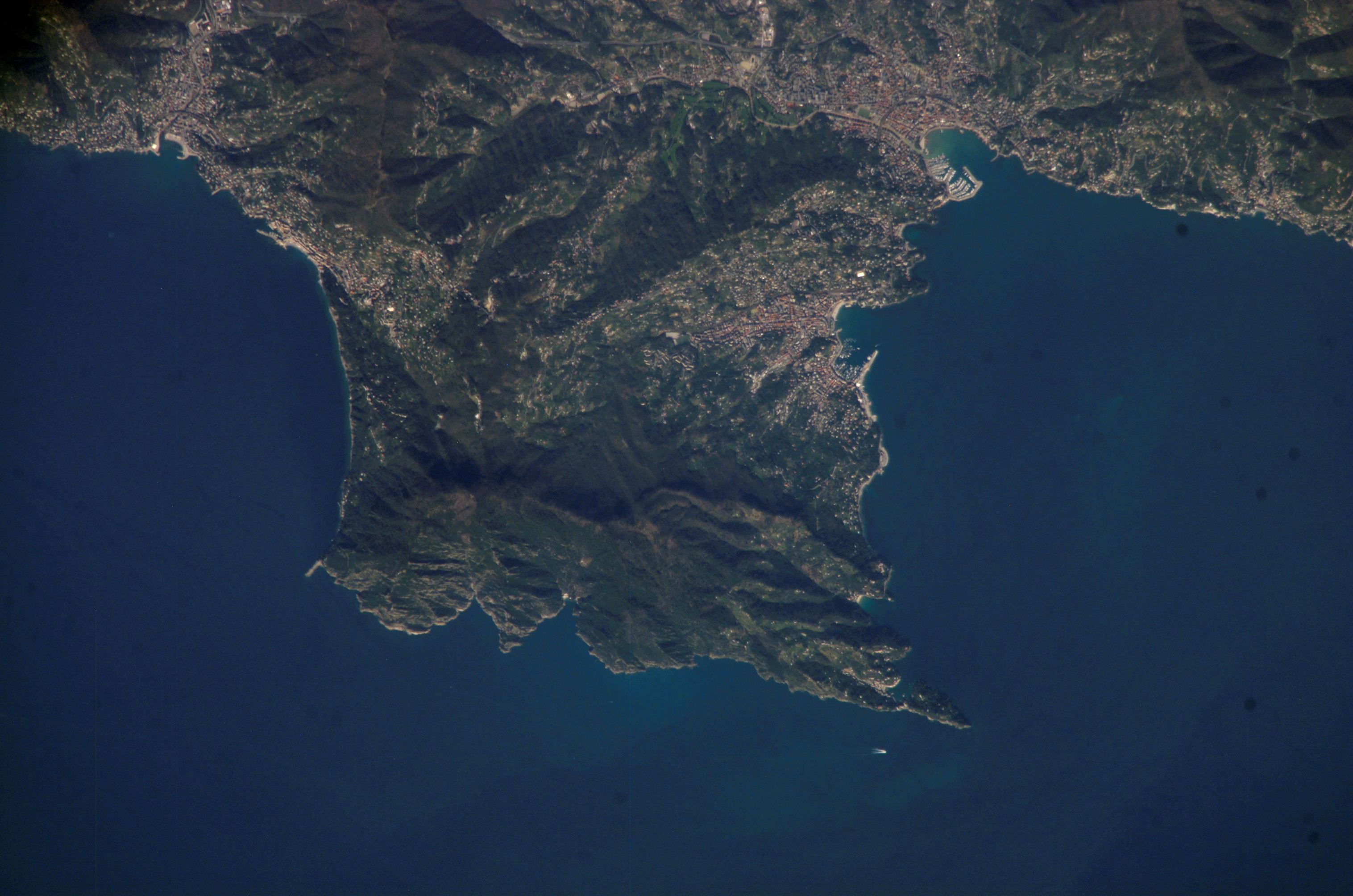 Monte di Portofino, Italy, from NASA ISS mission Pictures Mission: ISS014 Roll: E Frame: 17038 Mission ID on the Film or image: ISS014 Country or Geographic Name: ITALY Center Point Latitude: 44.3 Center Point Longitude: 9.2